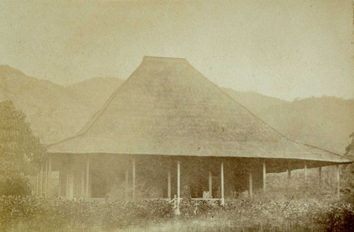 House of a civil servant ('controleur') at Lolo